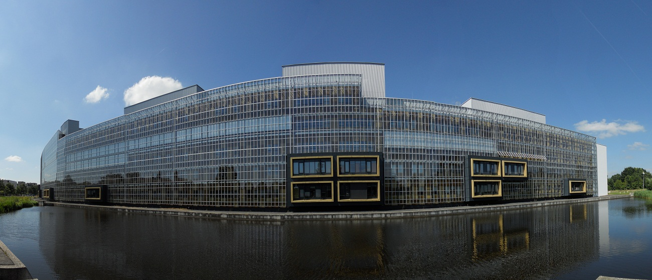 Panoramic picture of the east side of the Martini Hospital in Groningen, The Netherlands